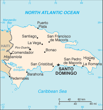 A map of the Dominican Republic, showing major cities.